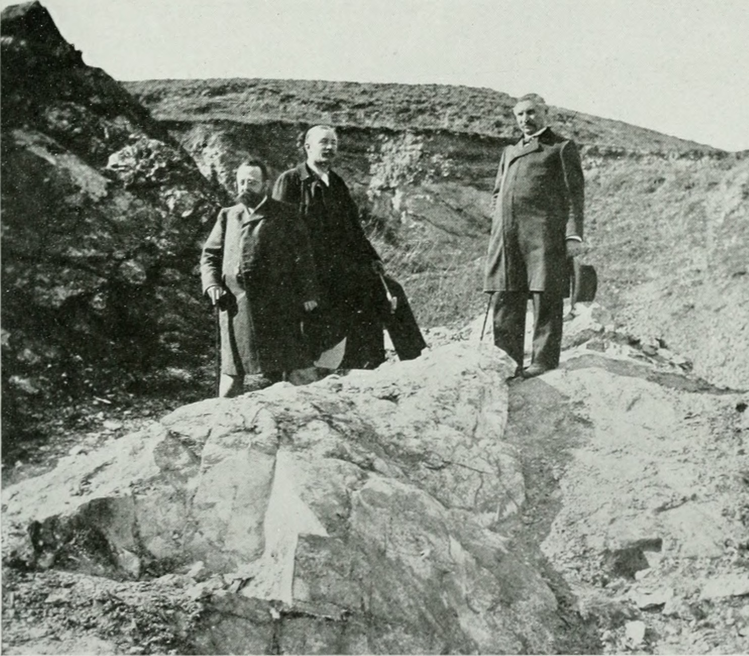 Jade quarry in Jordansmuhl, Silesia Title: The American Museum journal Year: c1900-(1918) (c190s) Authors: American Museum of Natural History Subjects: Natural history Publisher: New York : American Museum of Natural History Text Appearing Before Image: Quarry at Jordansmiihl, Silesia, where the largest block of jade ever mined was discovered in 1899. Although people familiar with Jordansmiihl were skeptical as to the chances of obtaining jade specimens of note in a spot where quarrying had been going on since Roman times, a search of less than a day was rewarded by the discovery of a jade block weighing between two and three tons. The cross indicates the original position of the mass Text Appearing After Image: V A near view of the original resting place of the jade block of Jordunsniulil, now exhibited in Memorial Hall of the American Museum of Natural History. To the left is seen Dr. Carl Hintze, of the University of Breslau, Germany, through whose courtesy was made possible the acquiring of this remarkable specimen 143